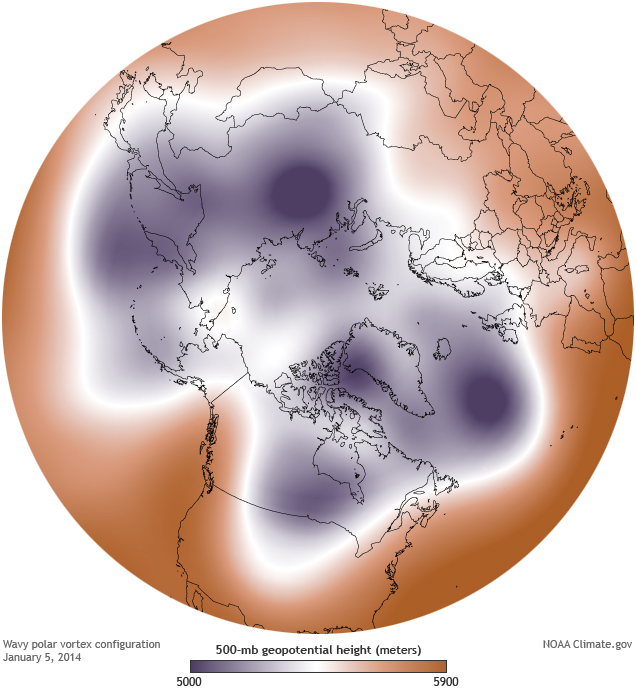 Wavy polar vortex configuration on January 5, 2014.